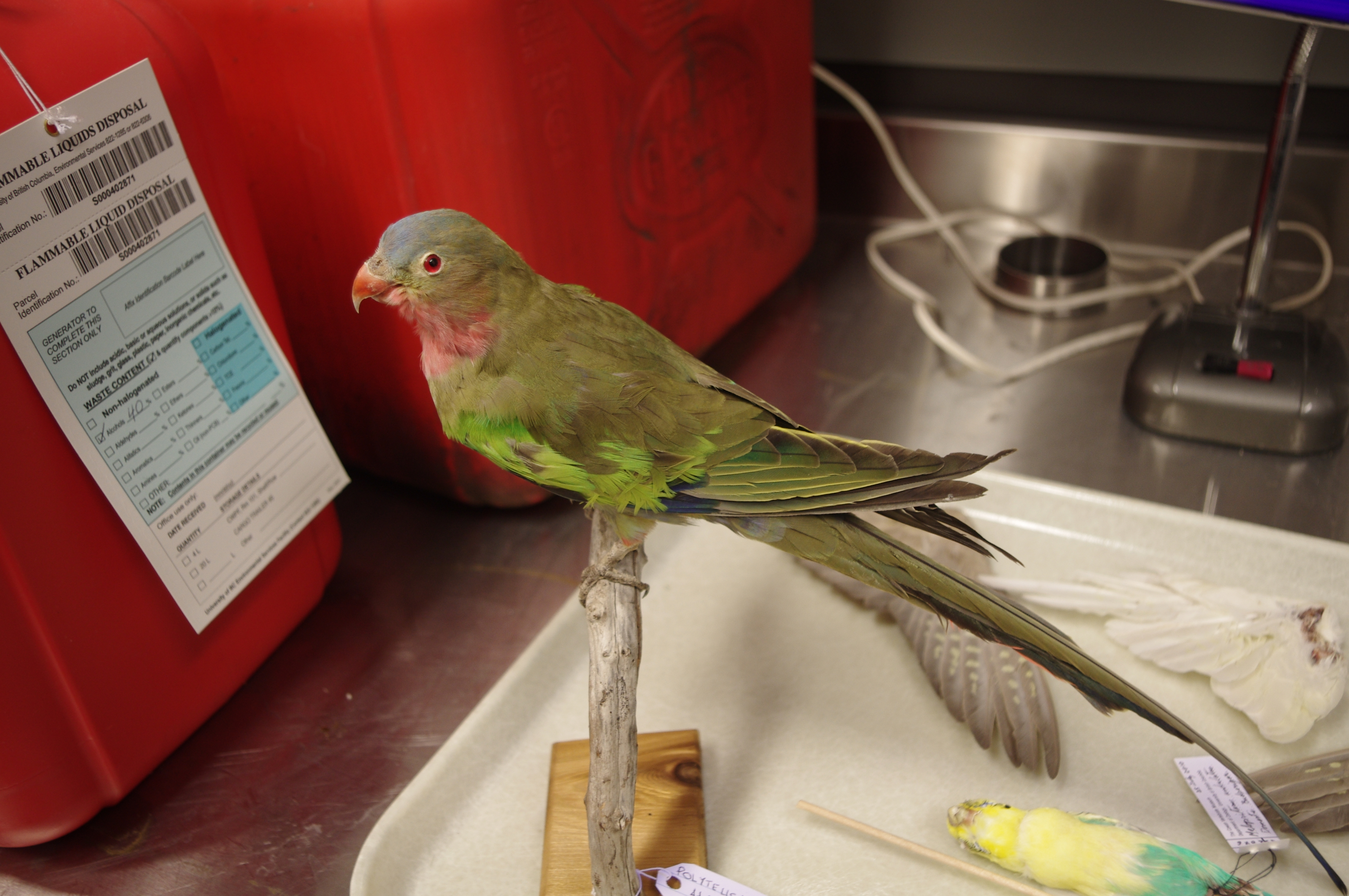 Female Princess Parrot (Polytelis alexandrae) specimen in a laboratory at the Beaty Biodiversity Centre